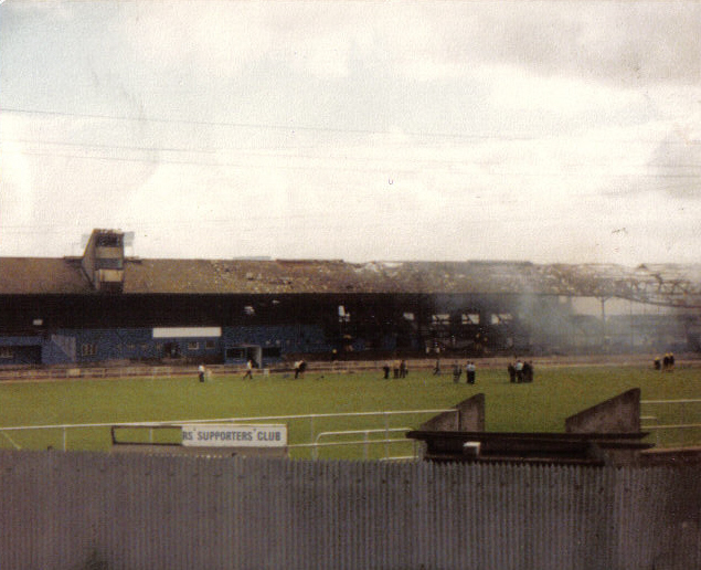 Photo showing the aftermath of the fire at Eastville Stadium in 1980.